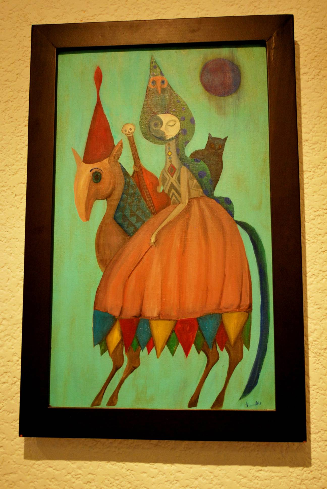 Painting "Artist Ambulante" by Fumiko Nakashima ( at Galeria Garros ( in Mexico City